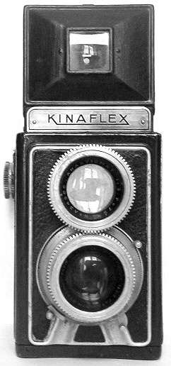 Kinaflex (Made in Nice, France) TLR camera.